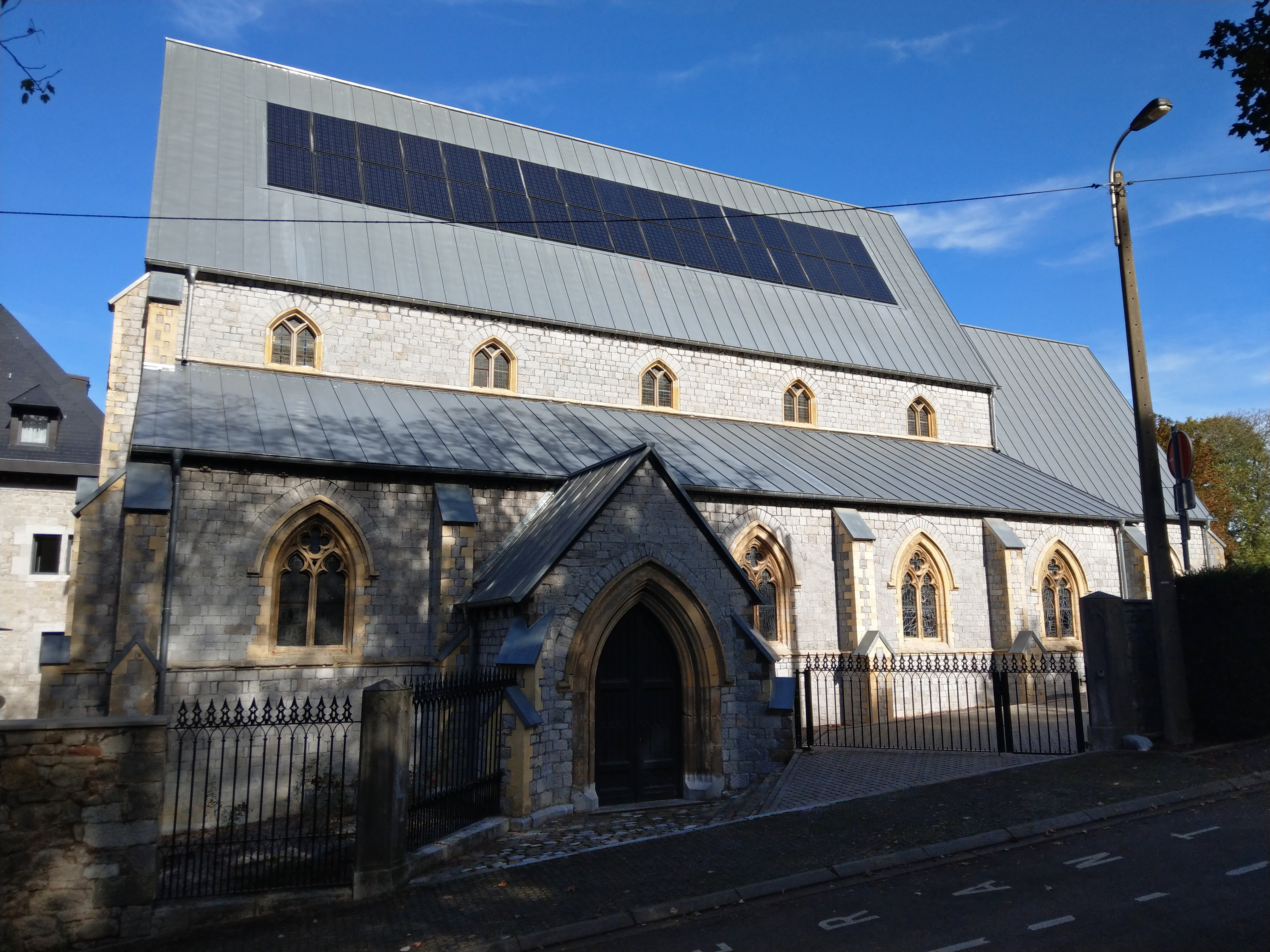 Explanations and history, see category